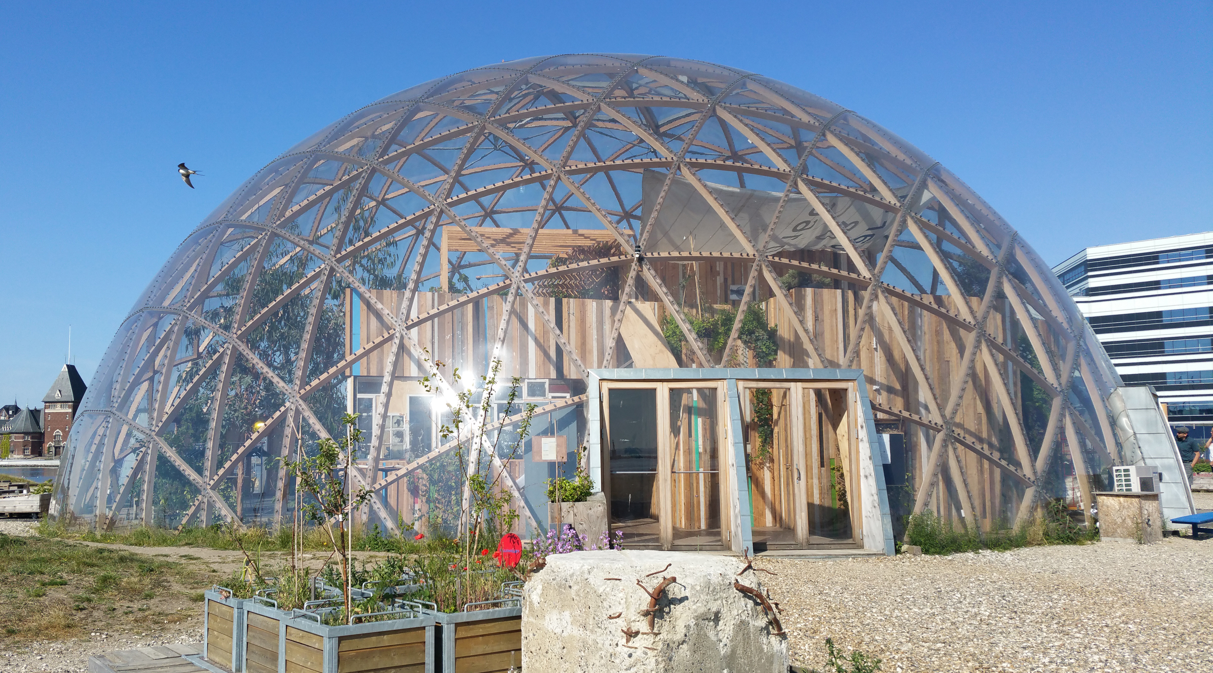 Photo by urban planner Nanda Sluijsmans